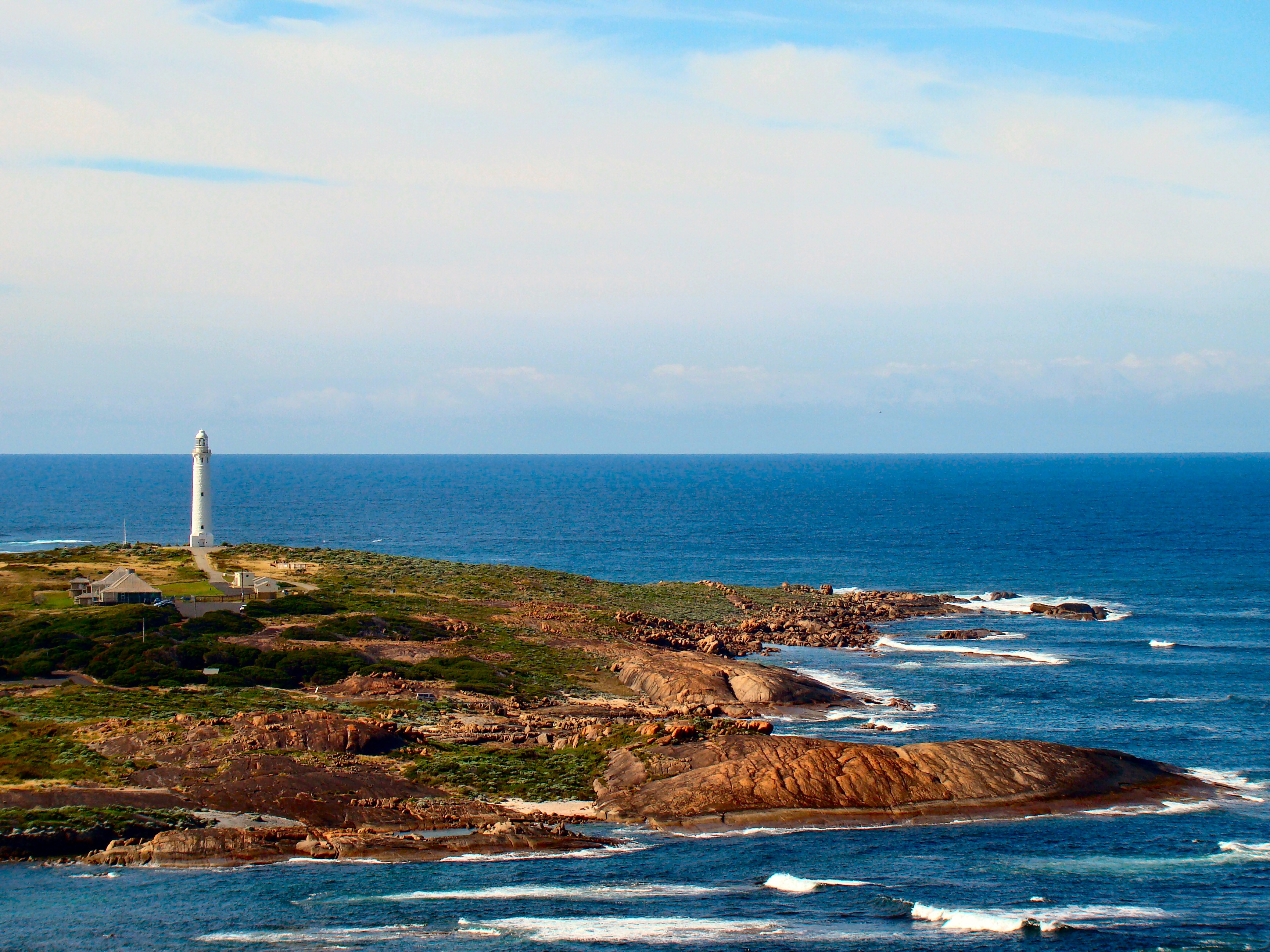 Cape Leeuwin and the lighthouse on it as seen from a gravel road just to the north